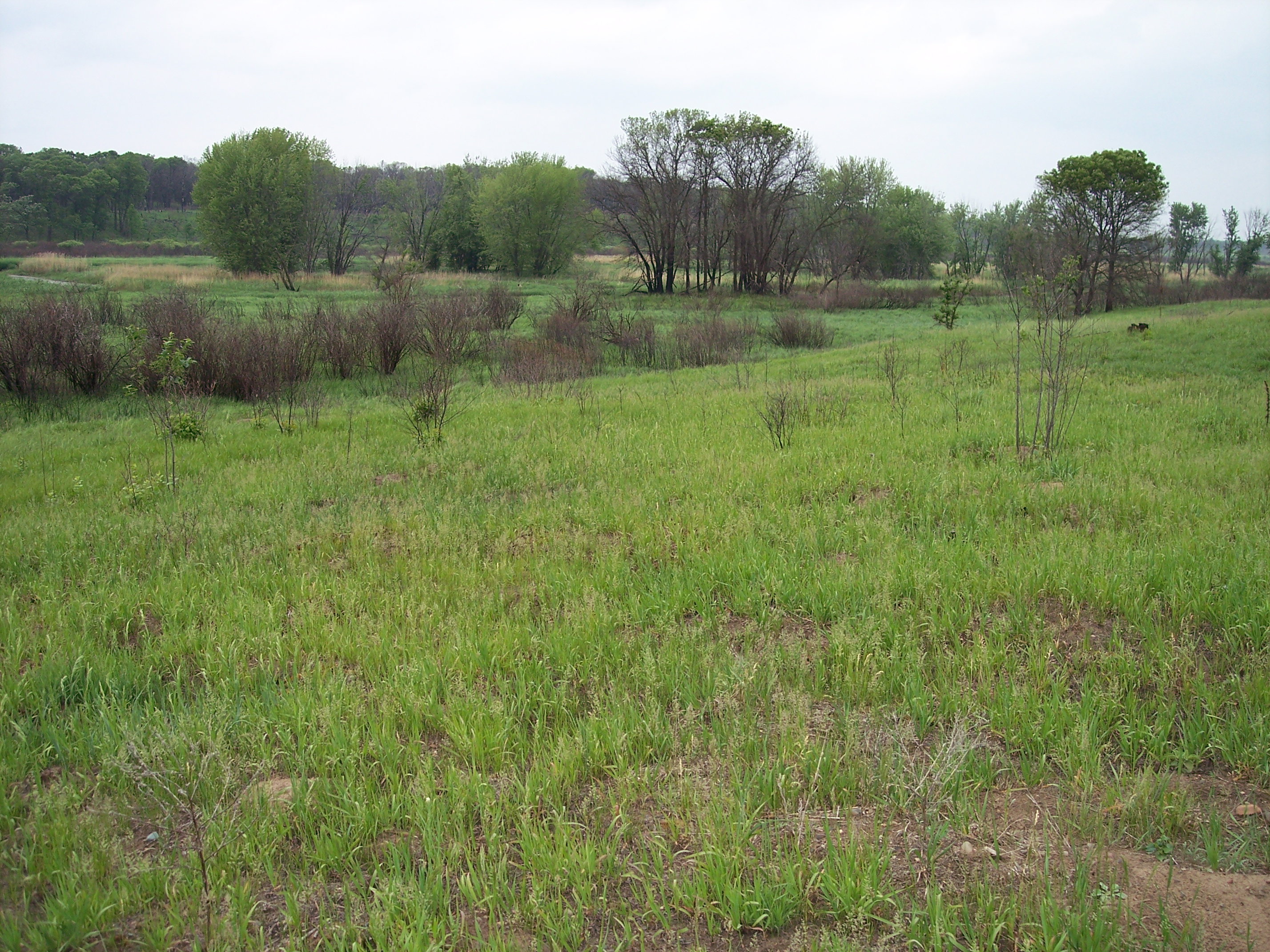 An area of the Sherburne National Wildlife Refuge along the St. Francis River in Orrock Township, Minnesota, as viewed from County Road 4.